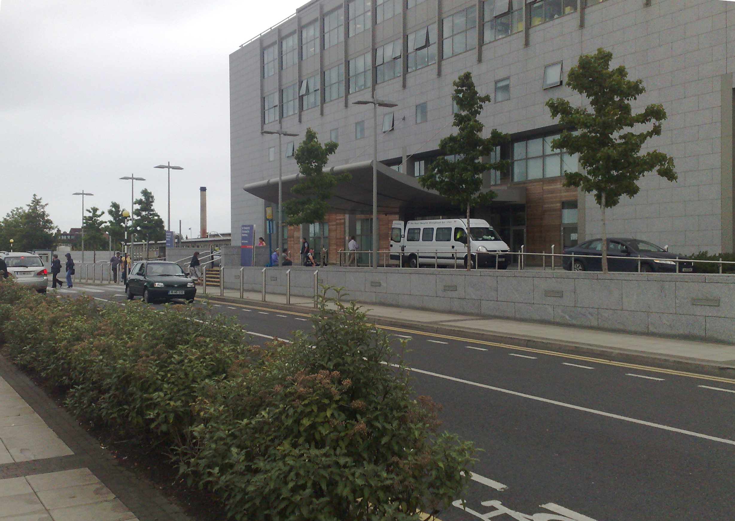 Main entrance of St. Vincent's University Hospital as seen from opposite site of main driveway near Nurse Education Centre and car park.